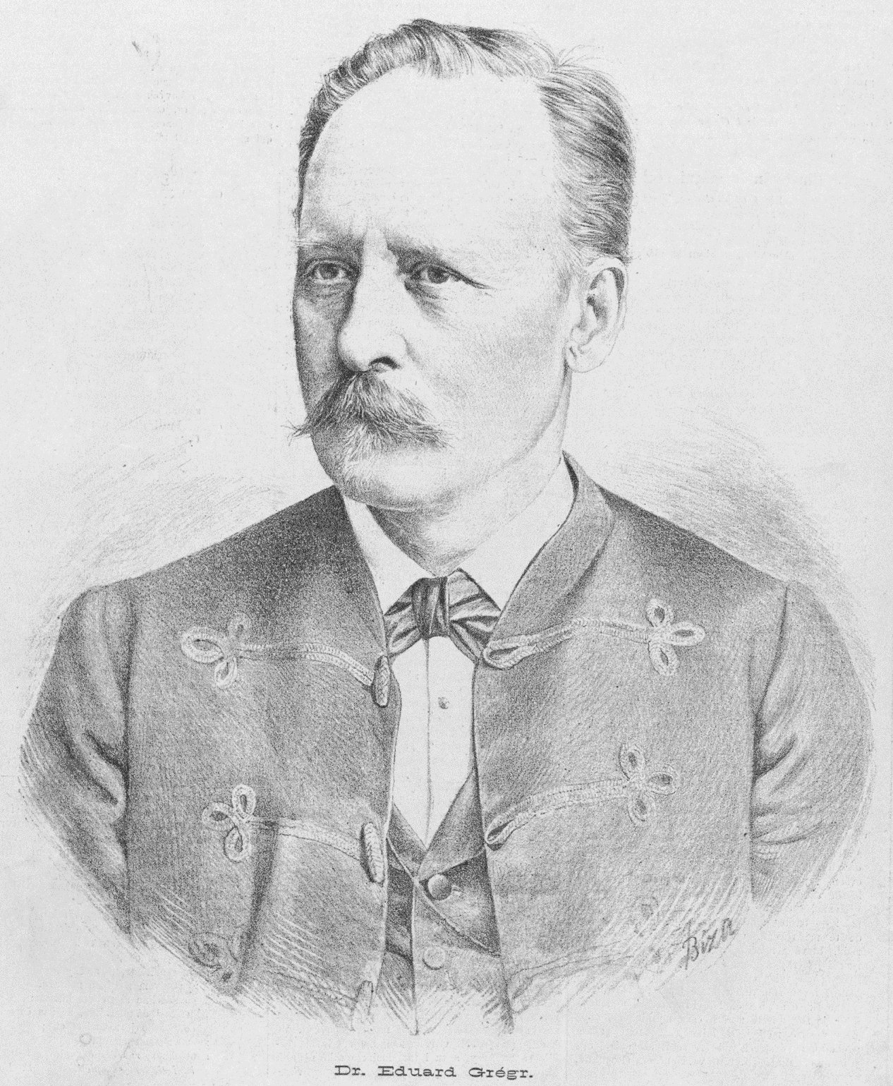 Portrait of Eduard Grégr (1827 - 1907), Czech politician.